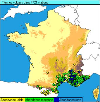 Garden Thyme (Thymus vulgaris), Map of France, a photography originating of the internet site The accord of the autor, H. Brisse, is here.